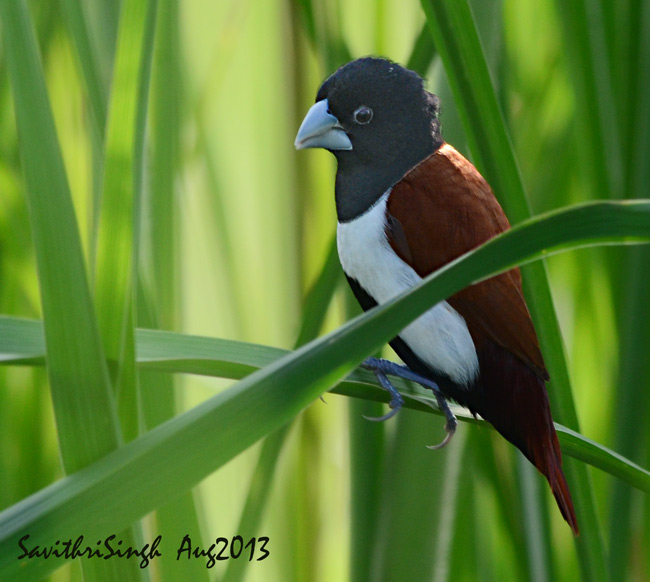 Taken by me at Dadri, Uttar Pradesh, India